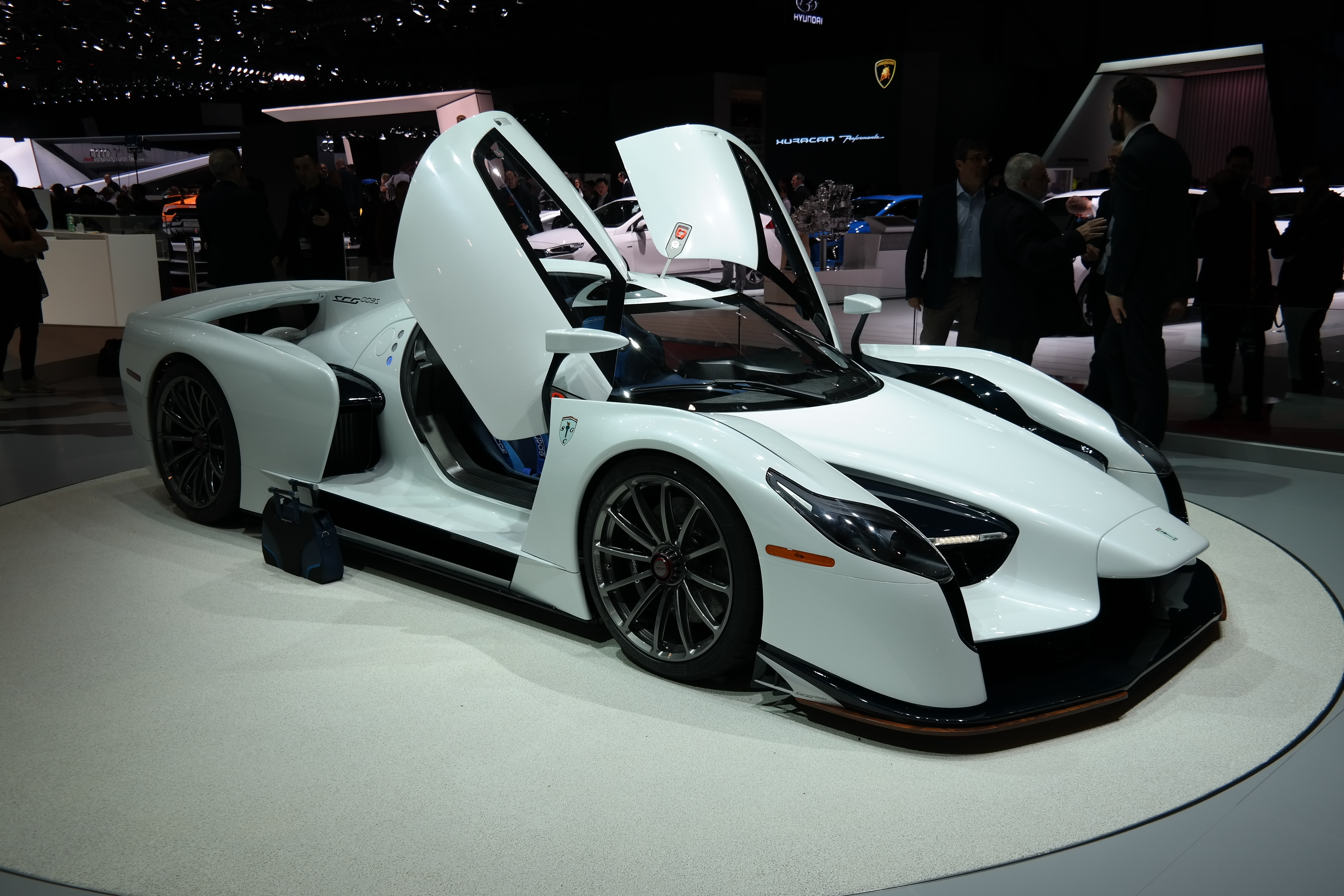 Geneva Motor Show 2017 (photo taken on the first press day)